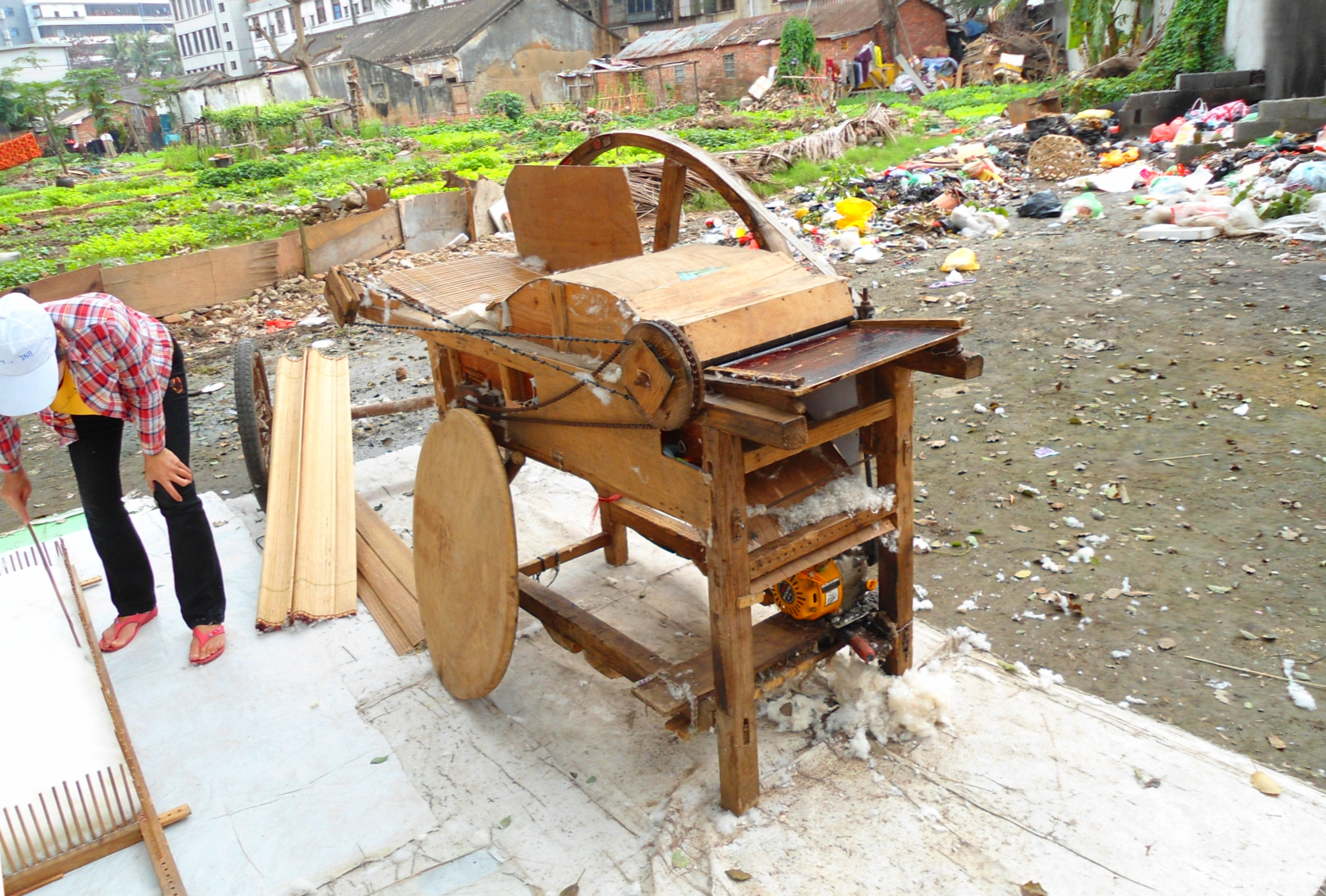 Blanket making in Haikou, Hainan, People's Republic of China. Machine for carding cotton. It is powered by a small petrol motor. This machine gives the cotton maximum volume, and removes clumps, giving it an even consistency.